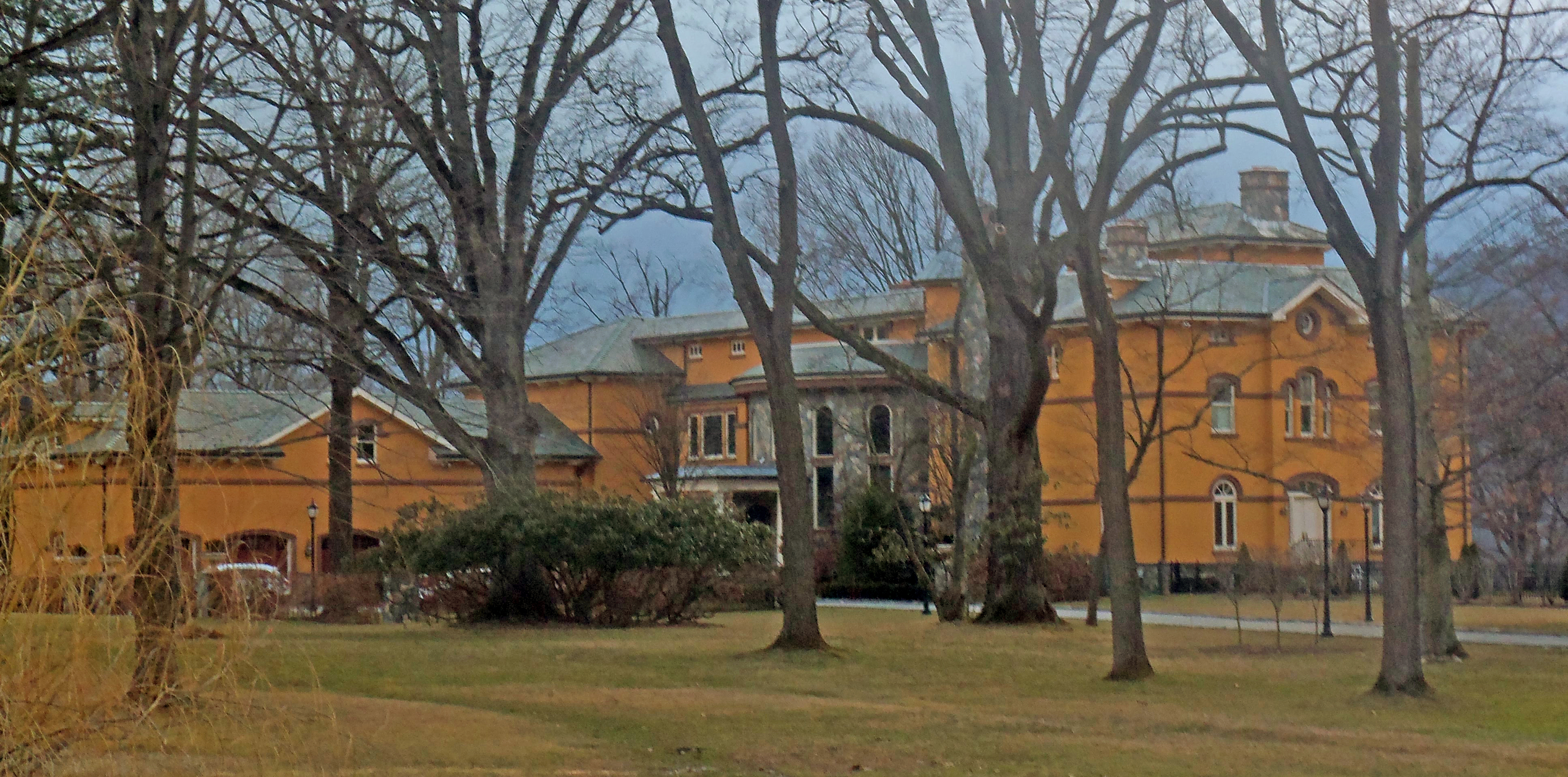 Rock Lawn and Carriage House, designed by Richard Upjohn, Garrison, NY, USA